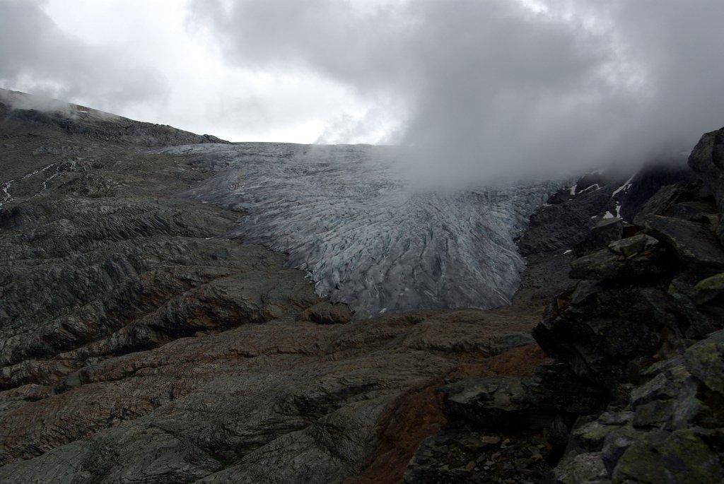 Illecillewaet Glacier in Glacier National Park of Canada